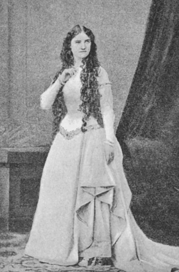 Swedish actess Elise Hwasser (1831-1894) as "Sigrid den fagra".